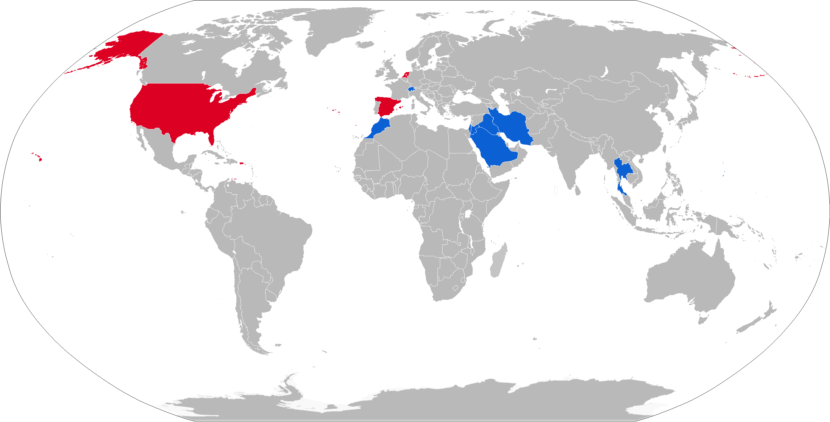 Map with M47 Dragon operators in blue with former operators in red